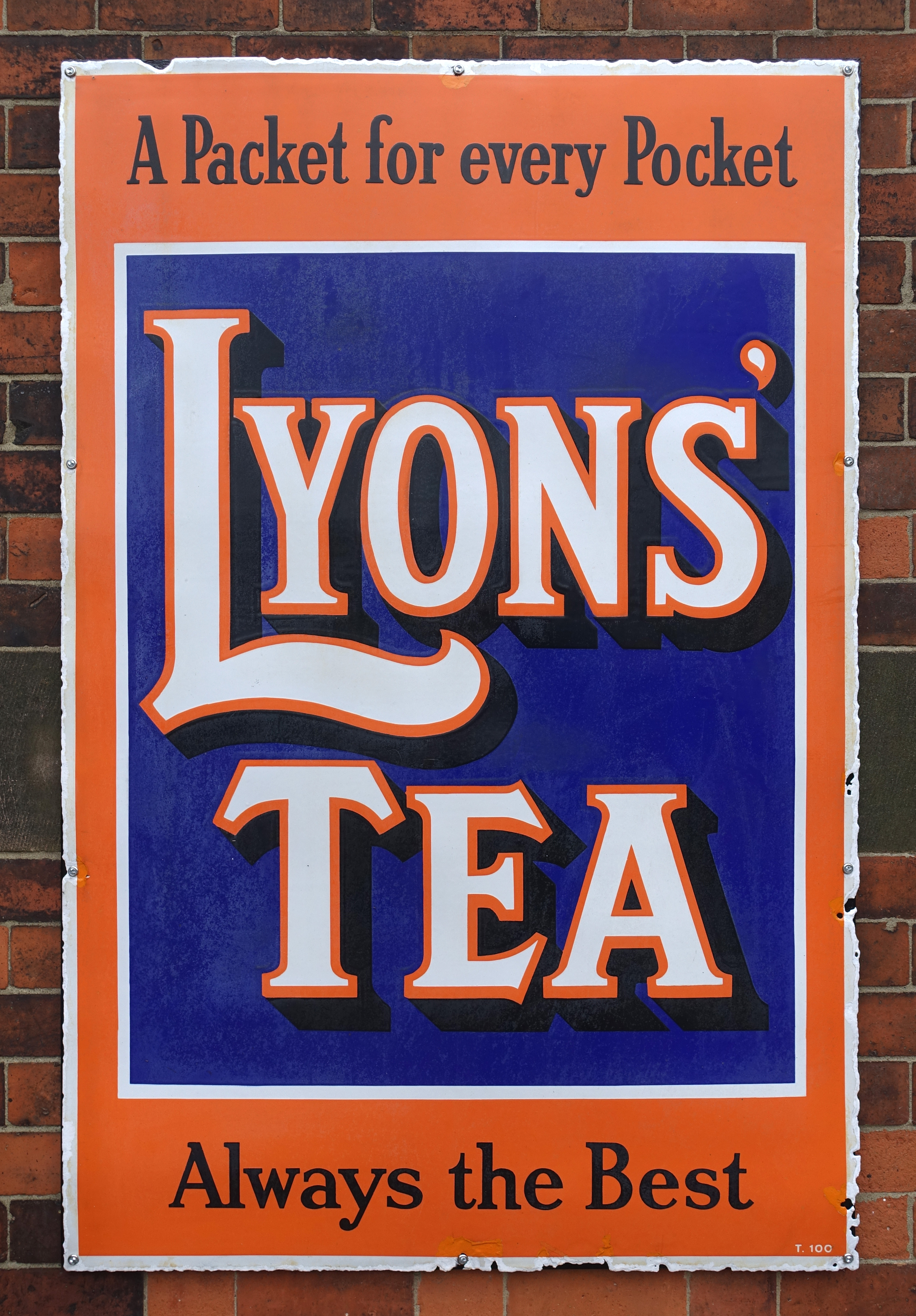 "Lyons Tea" enamel advertising sign at the Great Central Railway, Loughborough, cleaned and retouched.